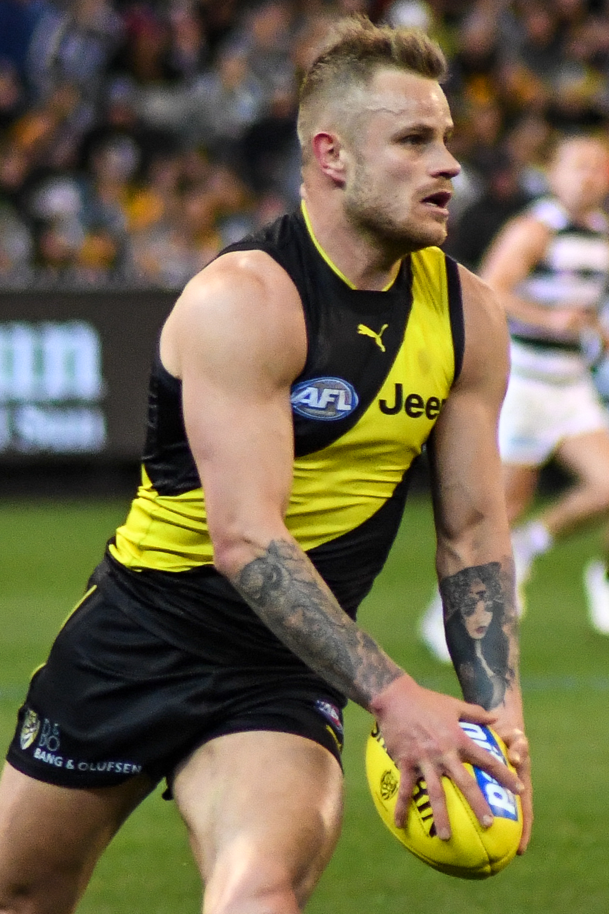 Brandon Ellis of Richmond during the 2018 AFL round 20 match between Richmond and Geelong at the Melbourne Cricket Ground on Friday, 3 August 2018 in Melbourne, Victoria.